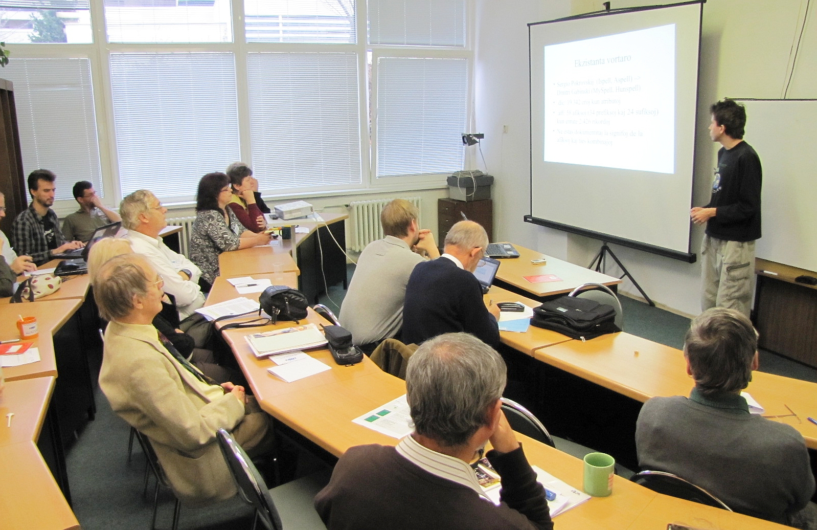 Lecture (in Esperanto) on spell checking by Marek Blahuš (Czech Republic) during the KAEST 2010 conference organized by E@I in Modra (Slovakia). Prelego (en esperanto) pri literumkontrolado de Marek Blahuš (Ĉeĥio) dum la konferenco KAEST 2010 organizita de E@I en Modra (Slovakio).